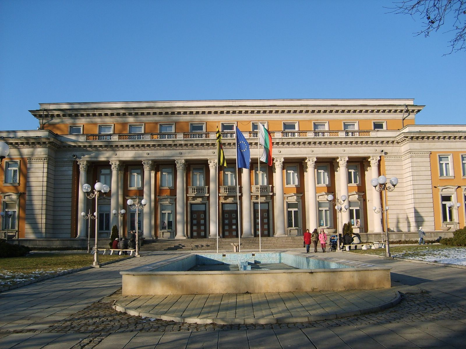 Palace of Culture, Pernik, Bulgaria